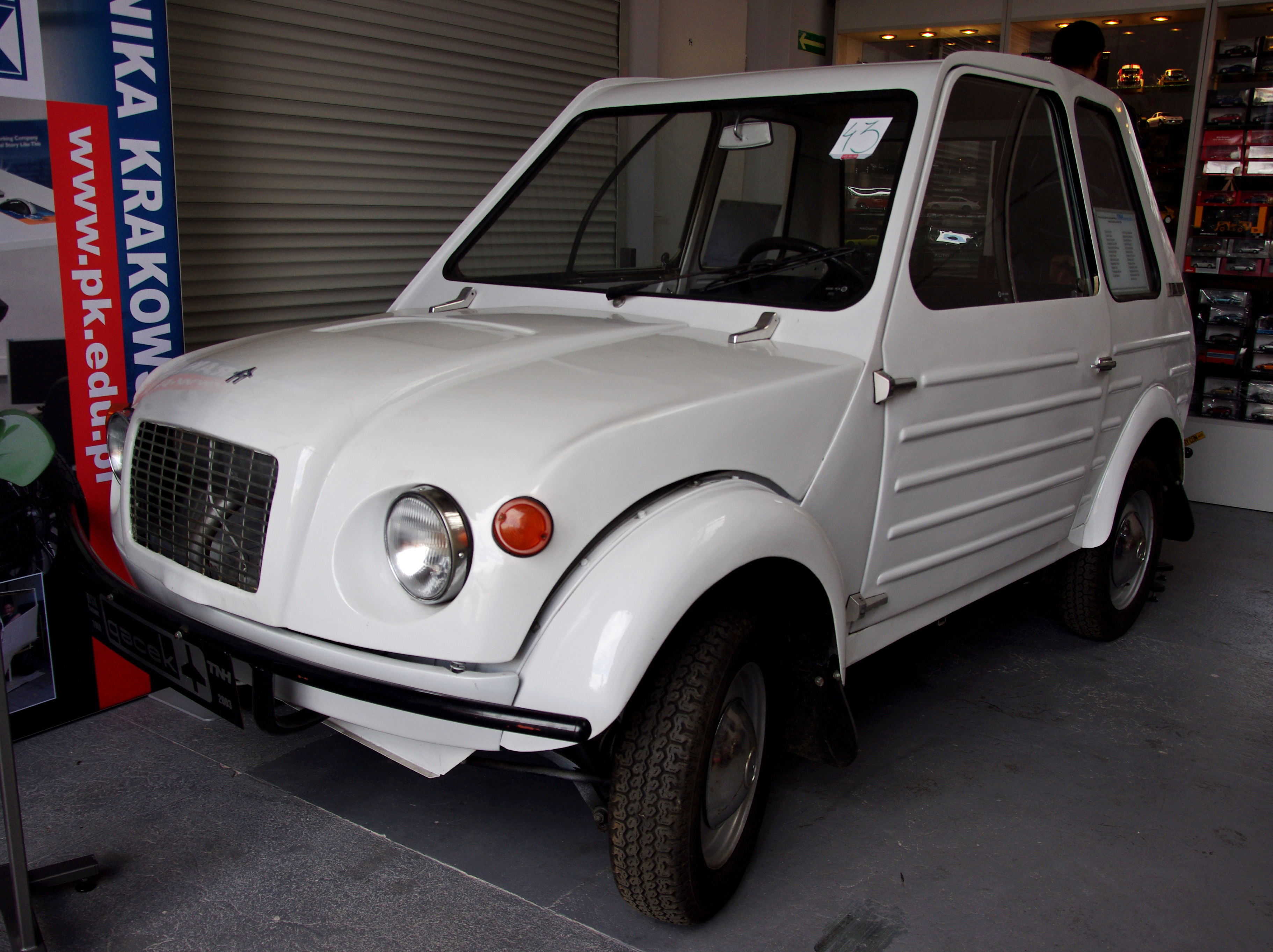 Gacek prototype at the Classic Moto Show in Kraków